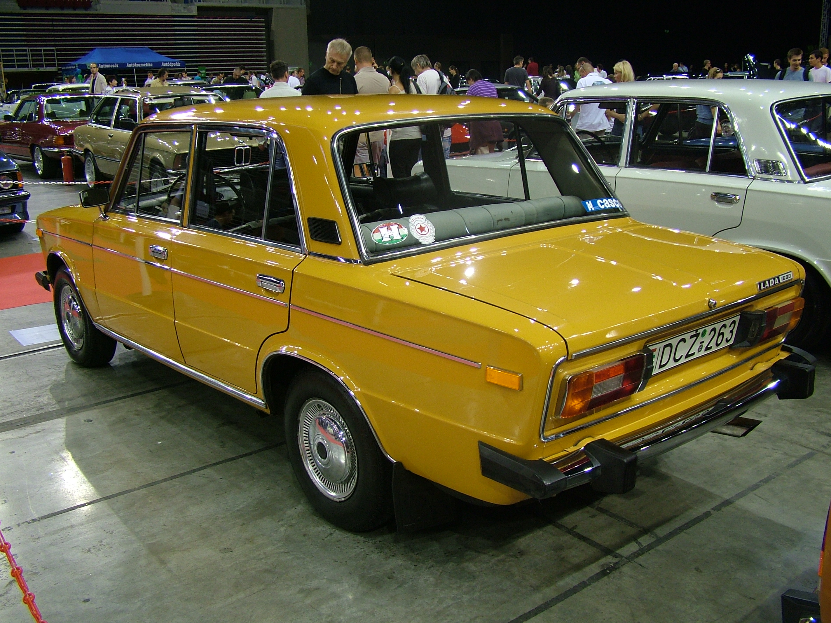 Lada 1600, produced in 1978, at the I. International Oldtimer and Youngtimer Festival, Budapest, 2011.